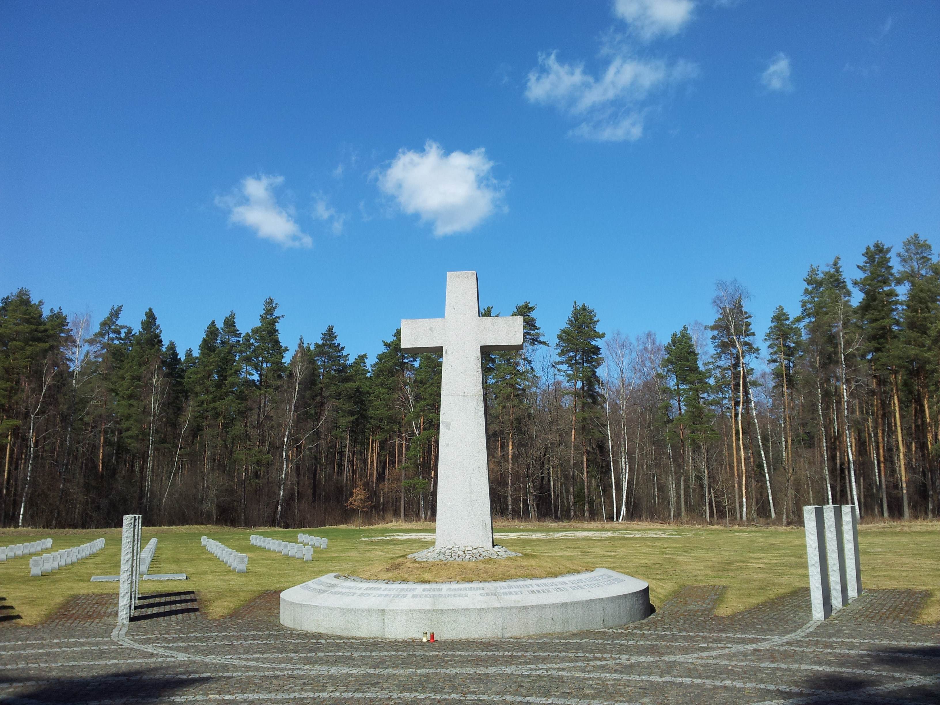 Cemetery of Germansoldiers died during WW2 period in Latvia.